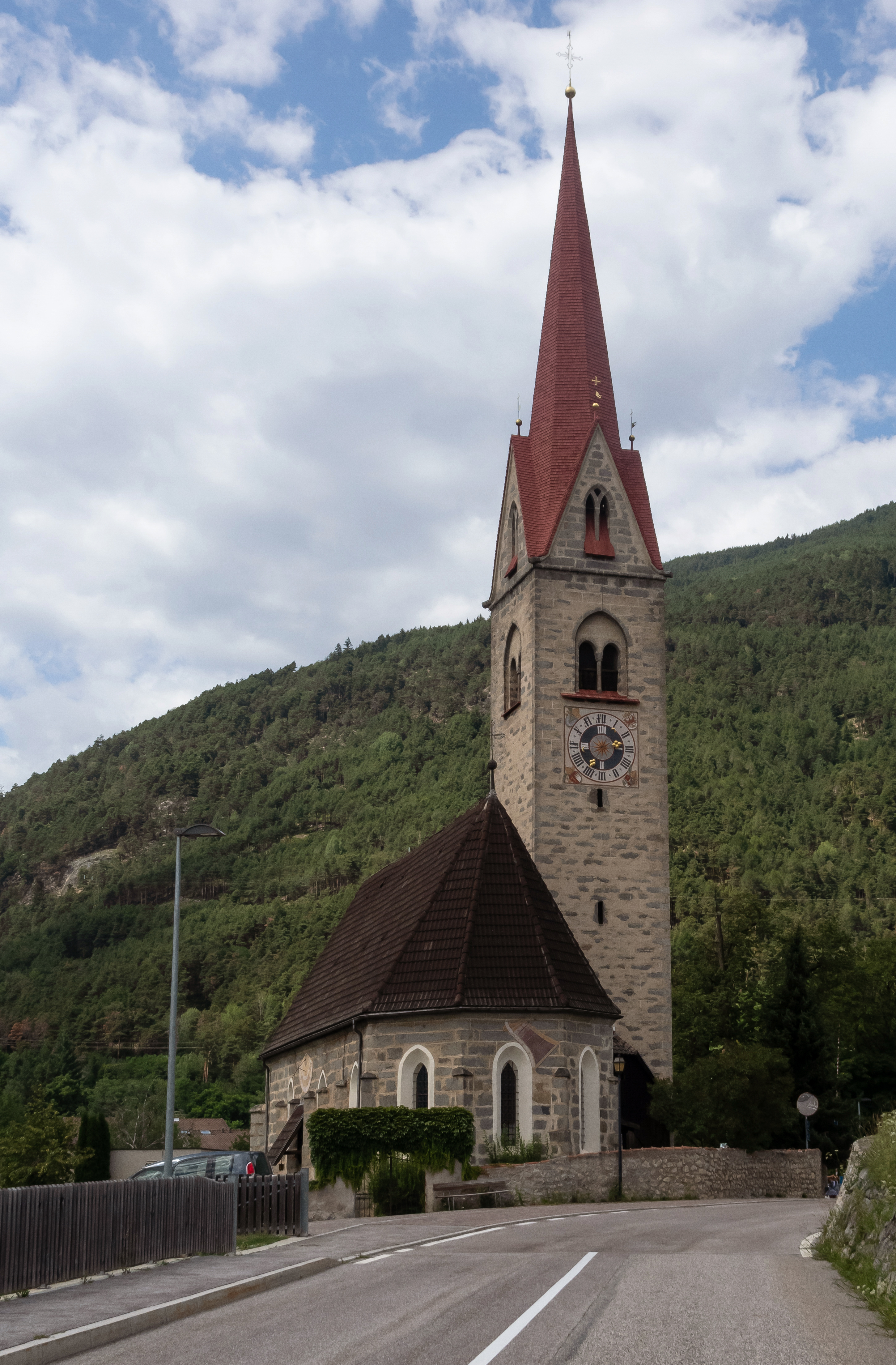 Aicha, Natz-Schabs, church: Pfarrkirche Sankt Nikolaus